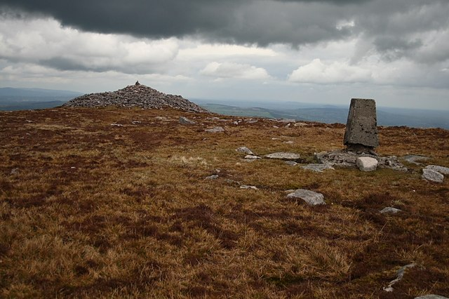 Slievenamon summit Dark cloud over summit cairn and triangulation pillar on Slievenamon (i.e Women's Mountain)where the legendary Fionn Mac Cumhail chose his wife, she being the winner of a race to the summit by prospective candidates!